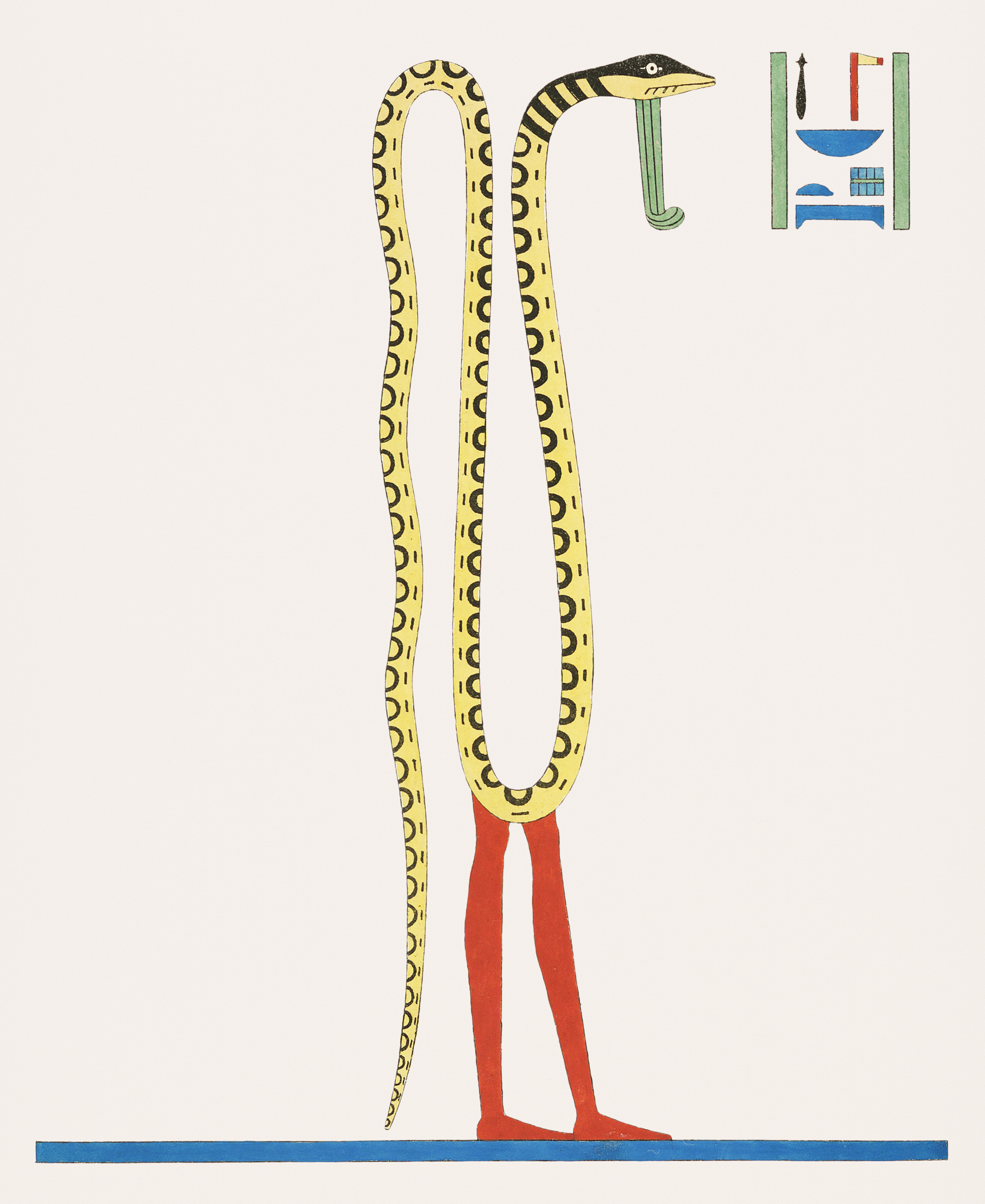 Kneph illustration from Pantheon Egyptien (1823-1825) by Leon Jean Joseph Dubois (1780-1846). Digitally enhanced by rawpixel.